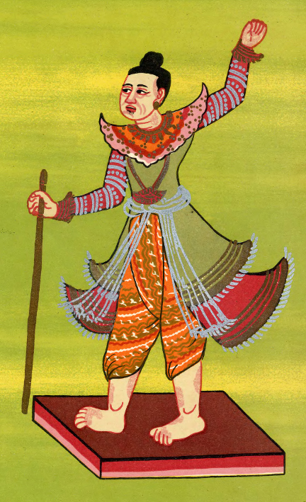 Nyaunggyin nat (spirit), th in the official pantheon of Burmese nats